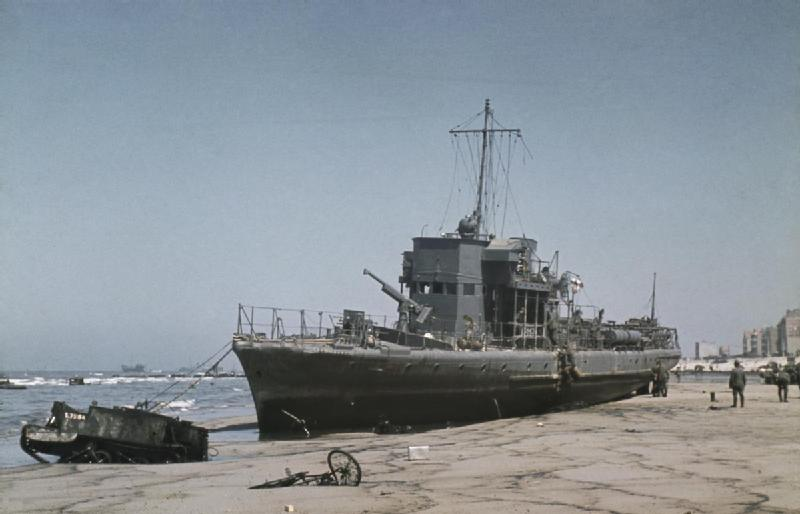 German forces move into Dunkirk hours after the evacuation of the British Expeditionary Force was completed. A beached French coastal patrol craft at low tide at Dunkirk. The ship is armed with a 75mm canon on its foredeck and probably dates from the First World War. A British Universal Carrier and a bicycle lie abandoned half buried in the sand.